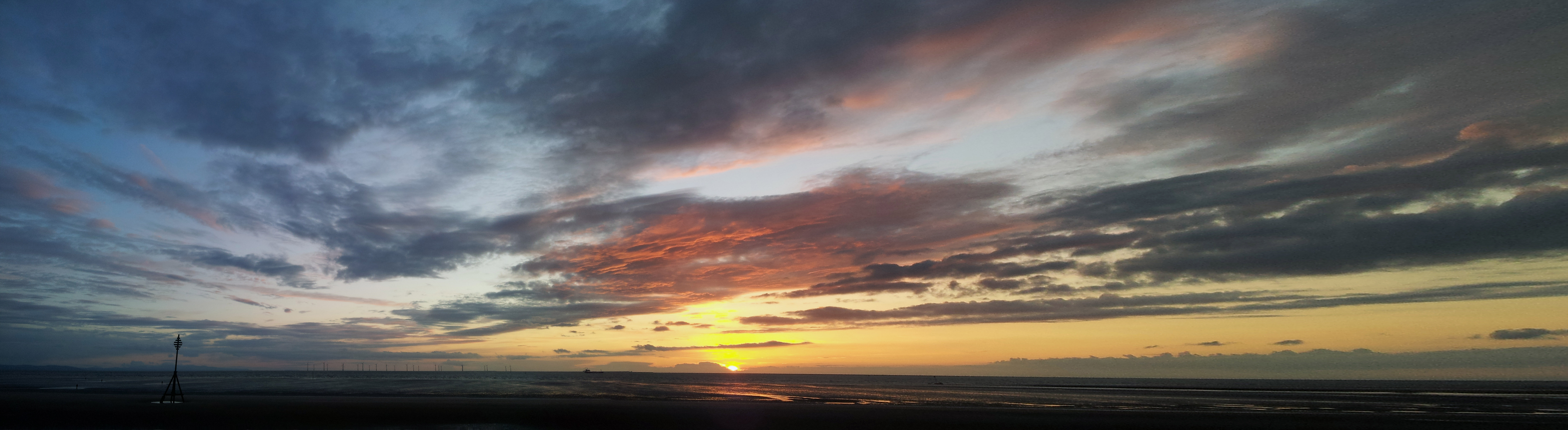 sunset at Crosby Beach (Blundellsands)